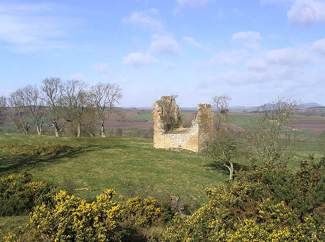 The remains of Timpendean Tower